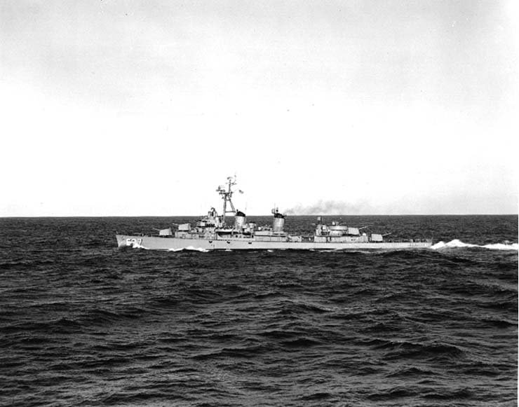 The U.S. Navy destroyer USS The Sullivans (DD-537) passing the destroyer tender USS Grand Canyon (AD-28) off Newport, Rhode Island (USA), on 29 October 1962. The Sullivans was assigned to the blockading forces during the Cuban Missile Crisis.